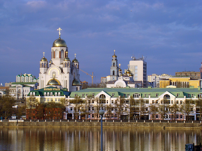 View on riverside in the center of Ekaterinburg.